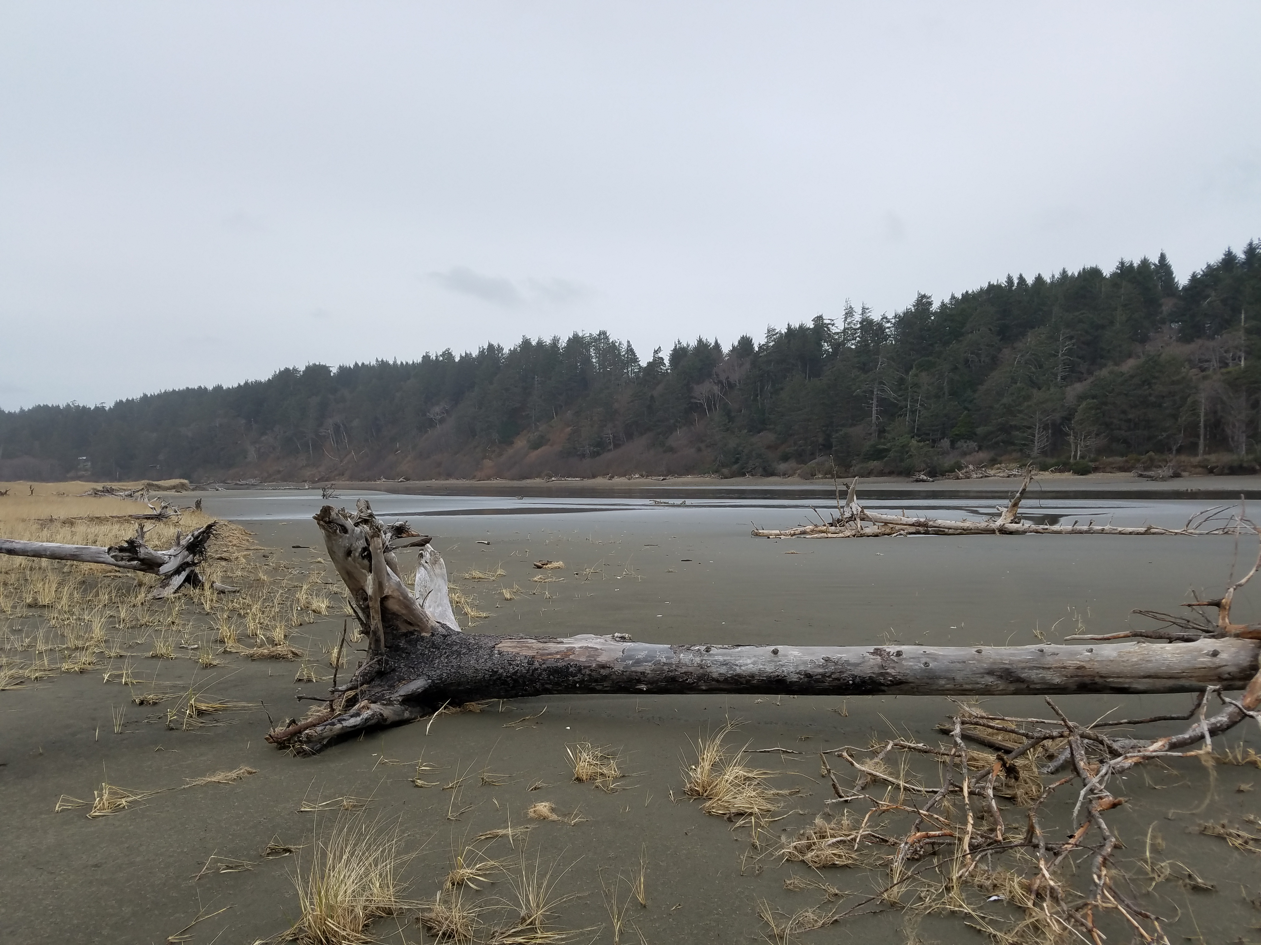 Banks of the Copalis River near its mouth in Griffiths-Priday Ocean State Park in Washington state, USA.